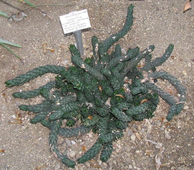 Haworthia reinwardtii, Botanical garden Heidelberg